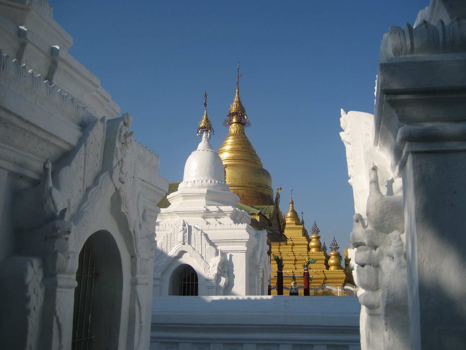 Kuthodaw pagoda - view from the middle enclosure between the stone-inscription stupas